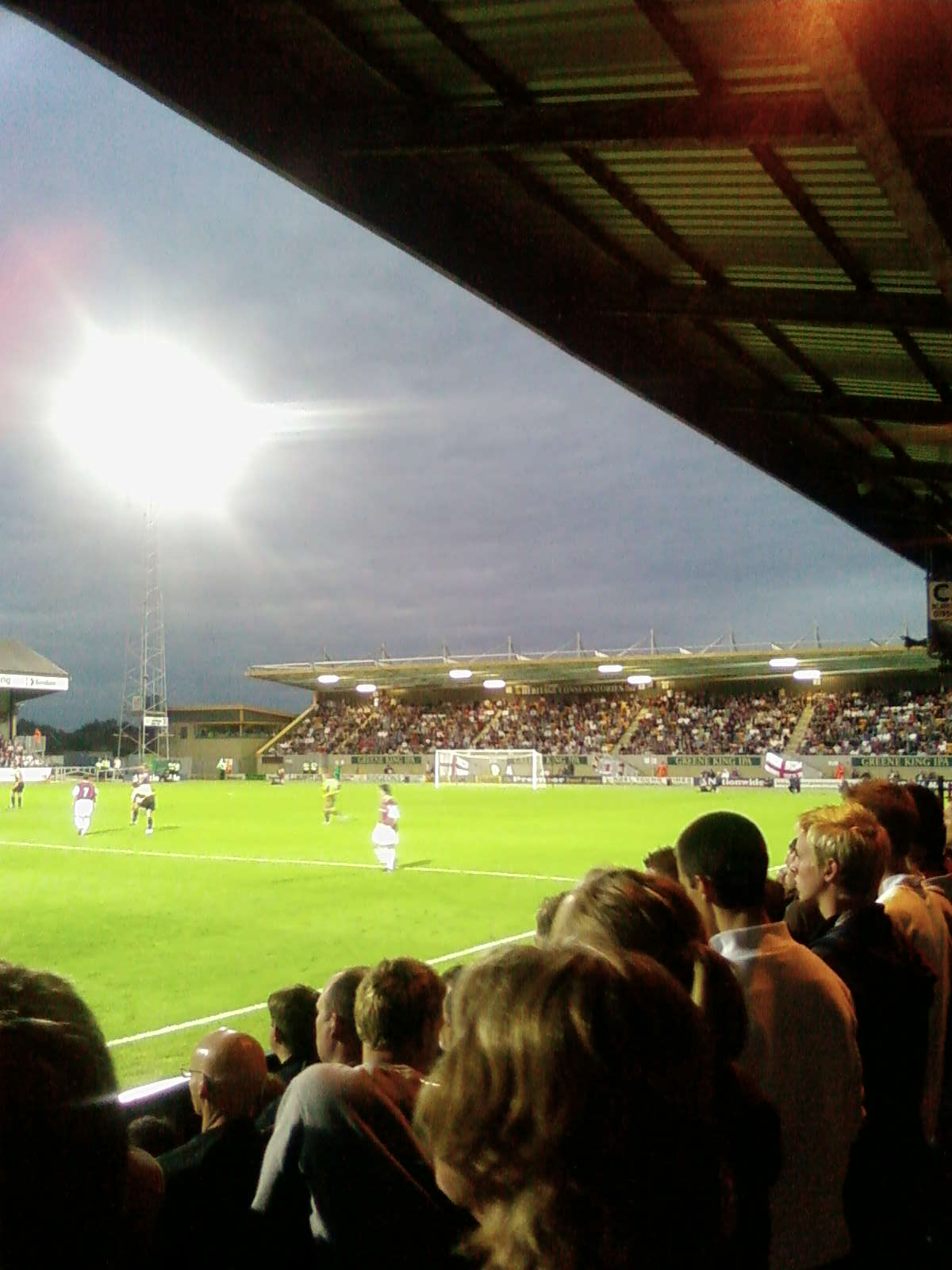 A full Abbey Stadium, Cambridge United v. West Ham United